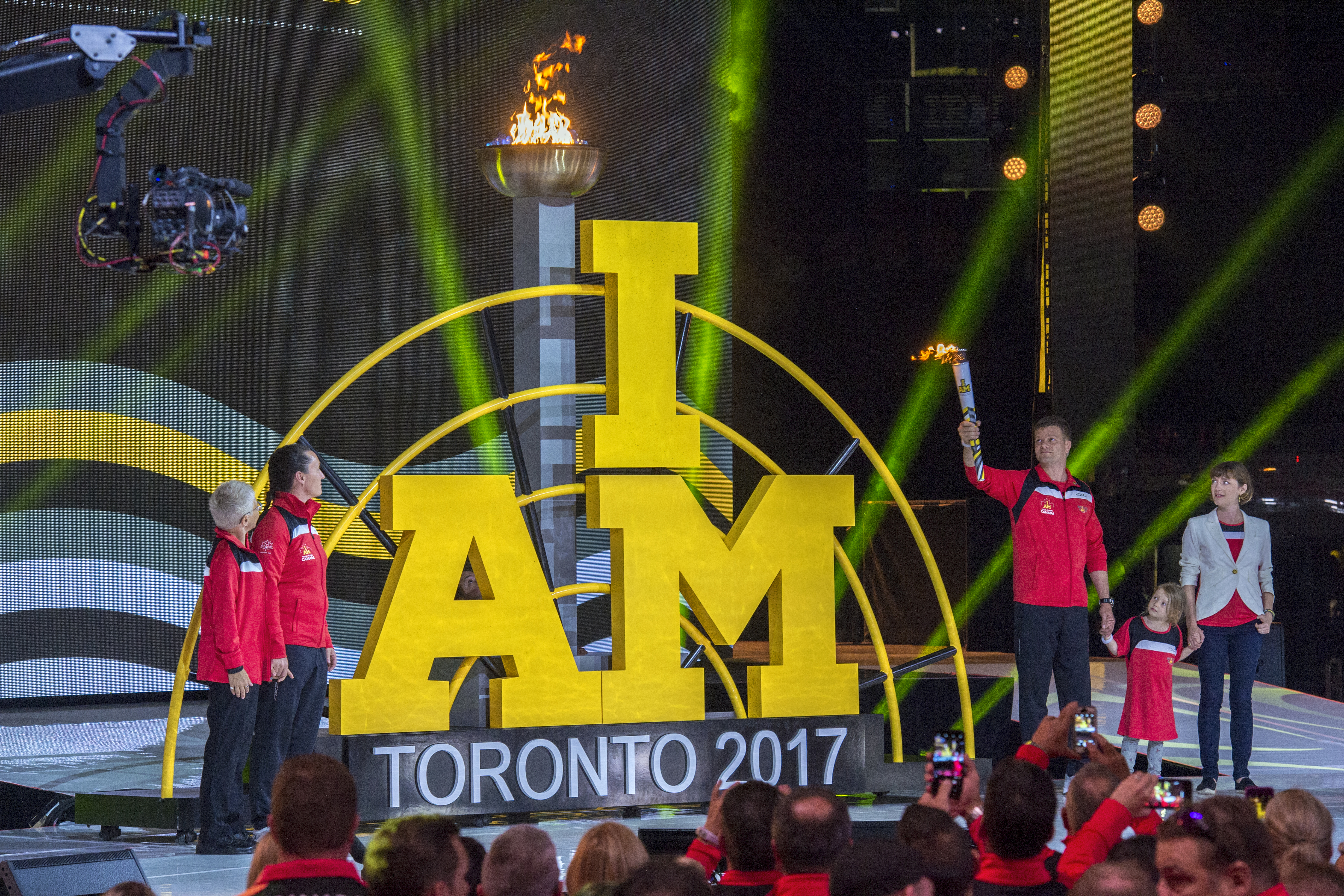 Team Canada lights the 2017 Invictus Games torch during opening ceremonies in Toronto, Canada Sept. 23, 2017. (DoD photo by EJ Hersom)